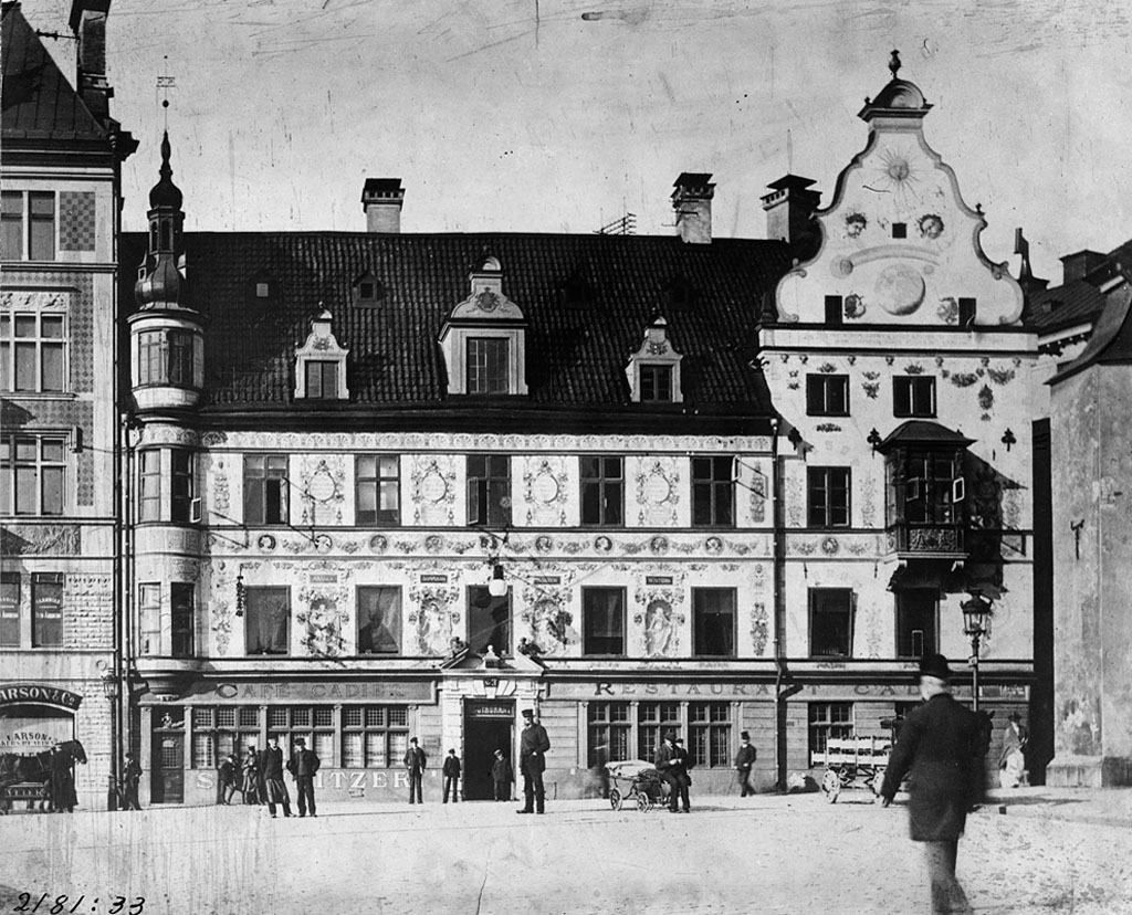 Jakobs torg (Jakob's Square) in Stockholm city. Format: Duplicate